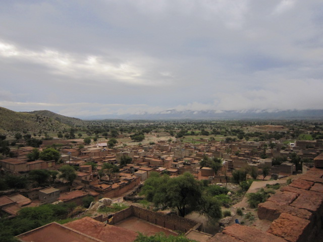 The area in the picture shows the "Essak" part of the village as it consist of two parts Essak and Khumari.